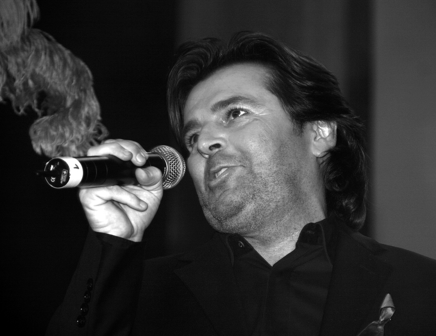 Thomas Anders, German singer, at Cover-me, a charity concert in Cologne, Germany.